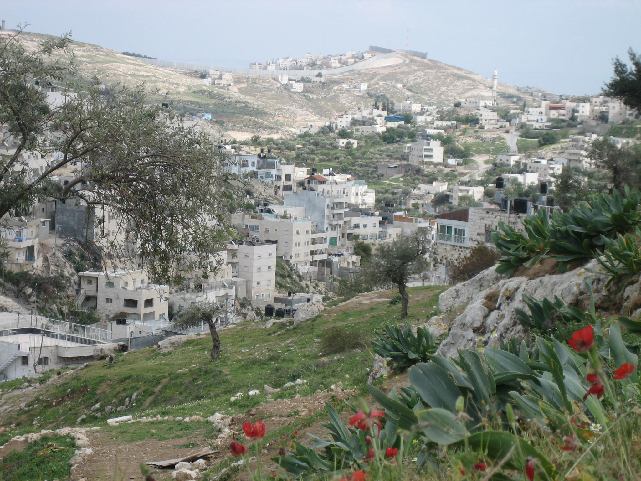 A view of Silwan from the hills below Abu Tur, in Jerusalem. The Israeli Separation Wall is visible.